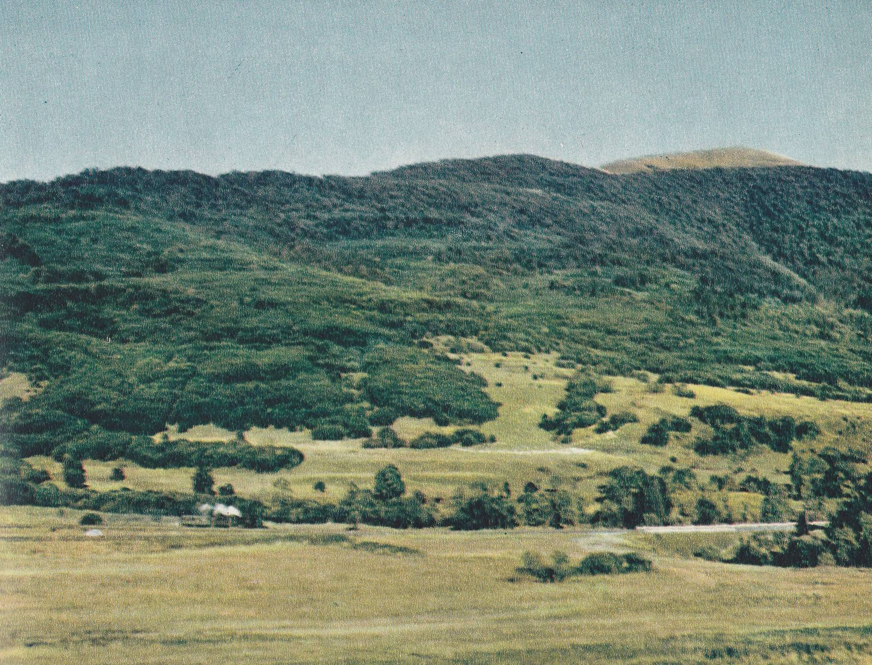 Bieszczadzka Forest Railway in village Smerek. Smerek mountain in the backgroudn (right)